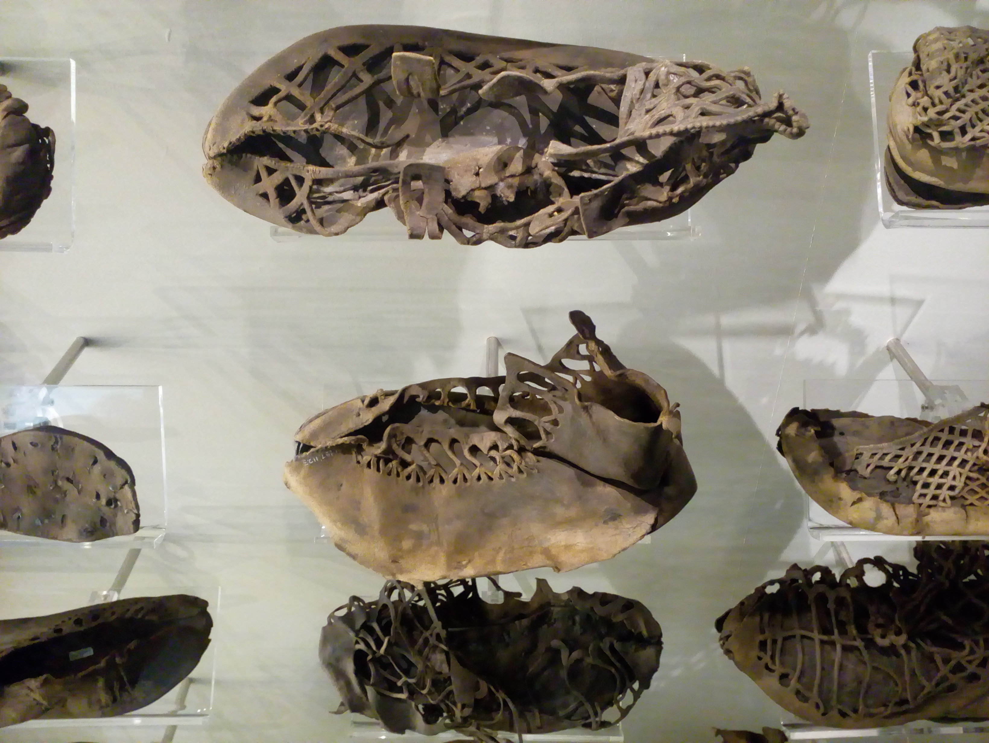 Vindolanda 2017 about 1900 years old